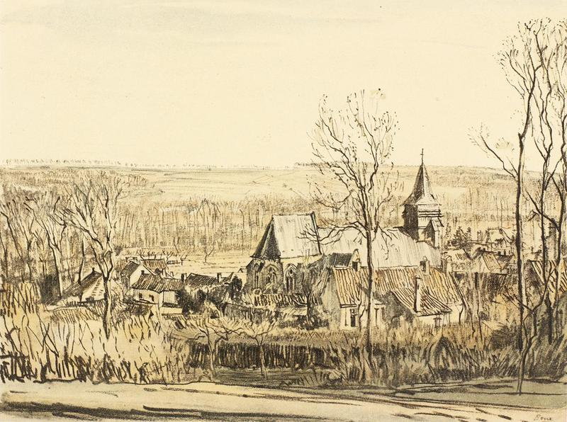 War Drawings by Muirhead Bone- Spring in Rollencourt Village